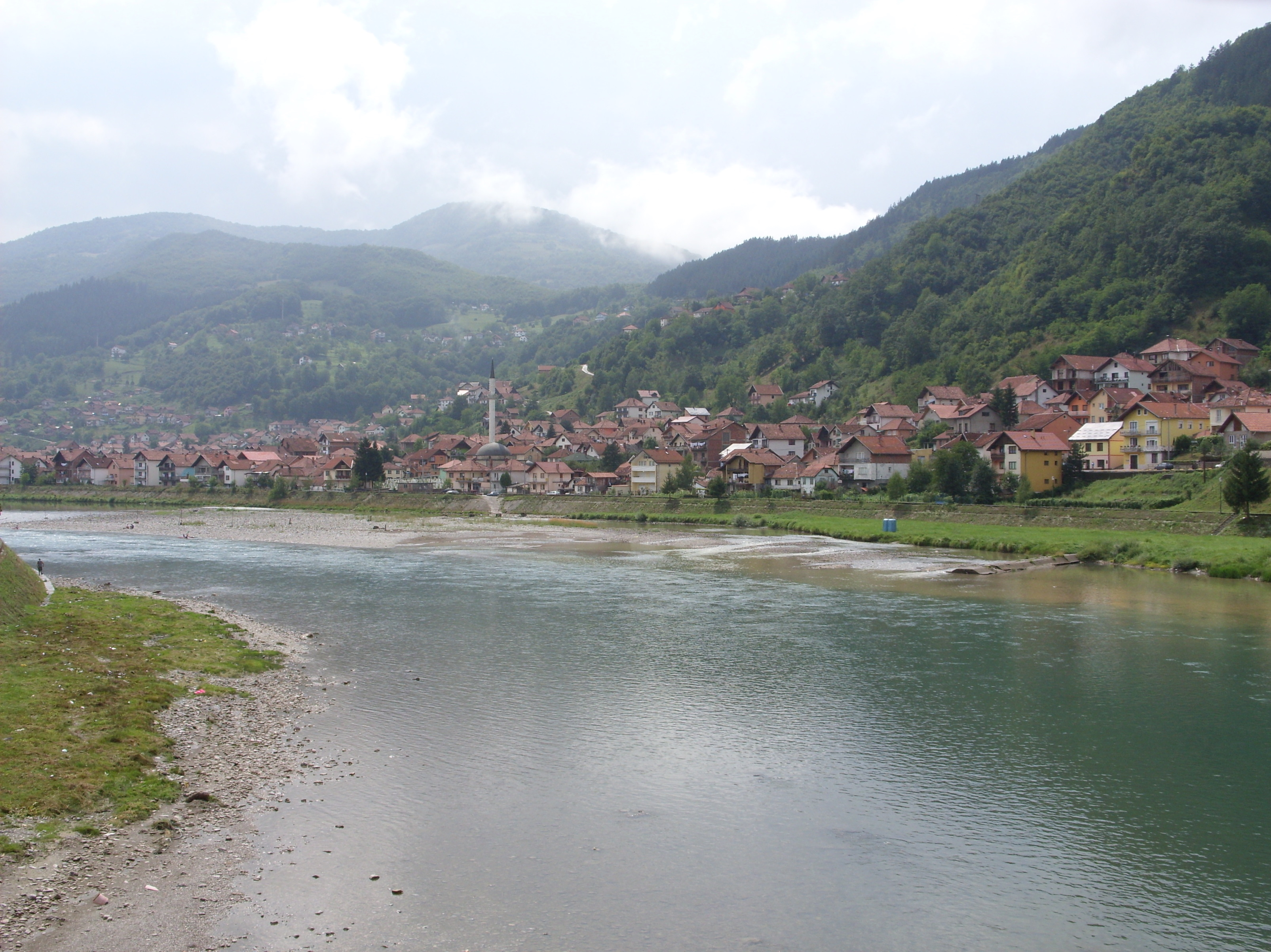 Drina River in Goražde, East Bosnia. Hornjoserbsce: Rěka Drina w Goraždźe, wuchodna Bosniska.